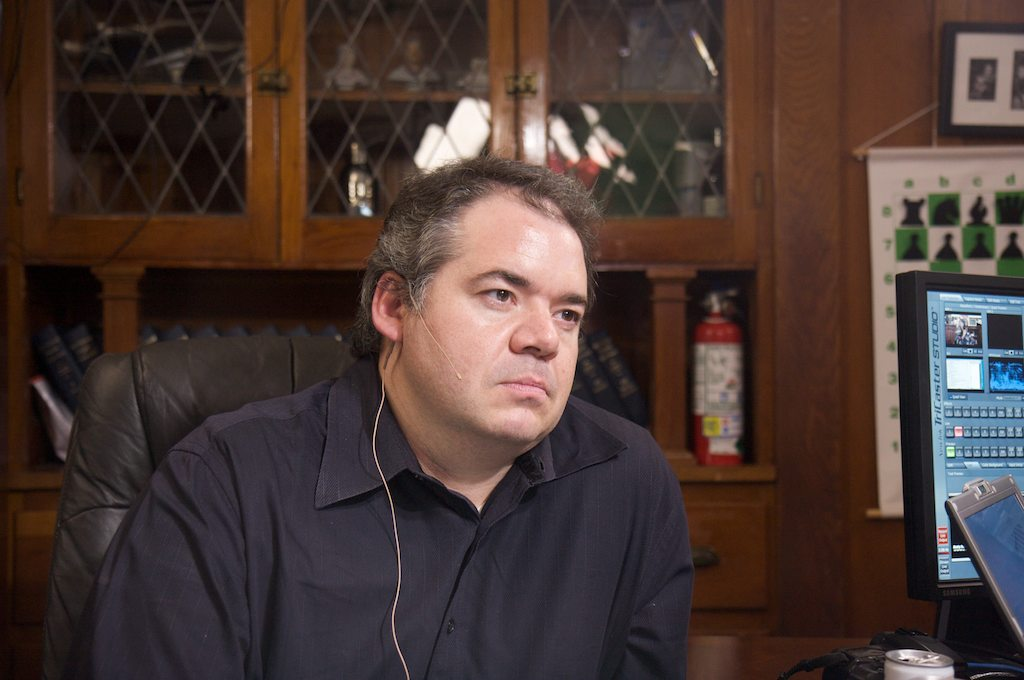 Alex Lindsay at the TWiT Cottage, shot by Randal Schwartz.